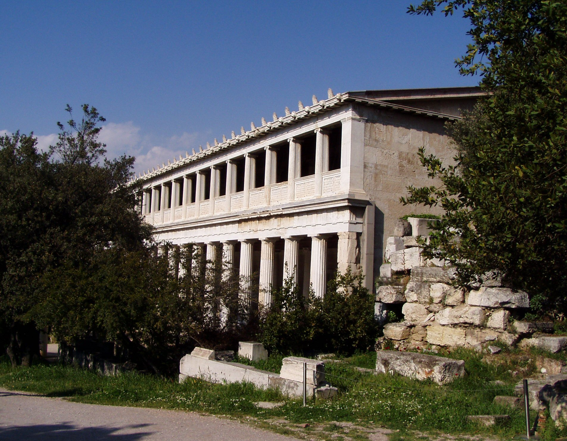 This is the stoa of Attalos at the Agora of Athens.